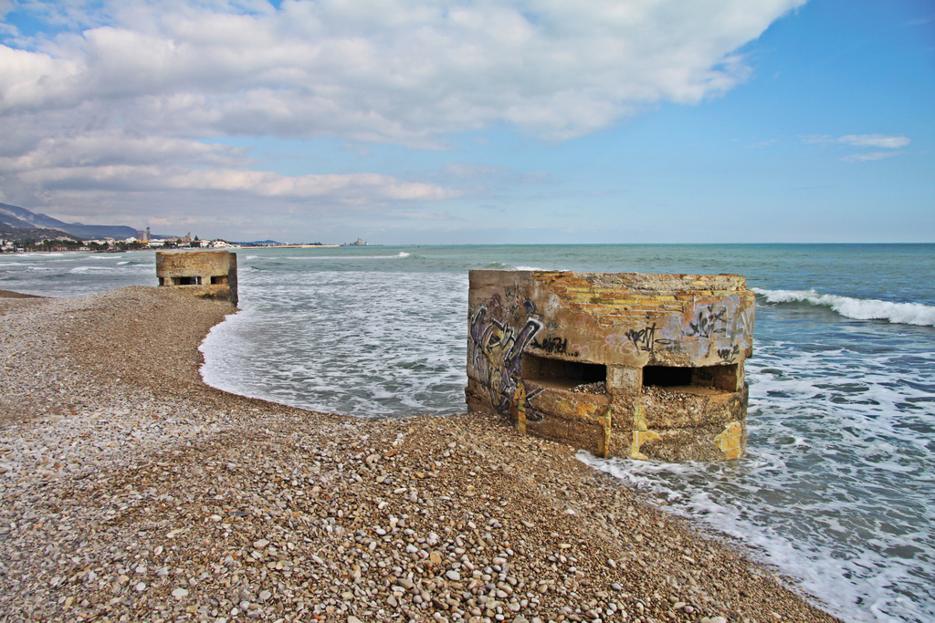 Bunkers from Spanish Civil War to Estanyet's Beach in Alcanar.